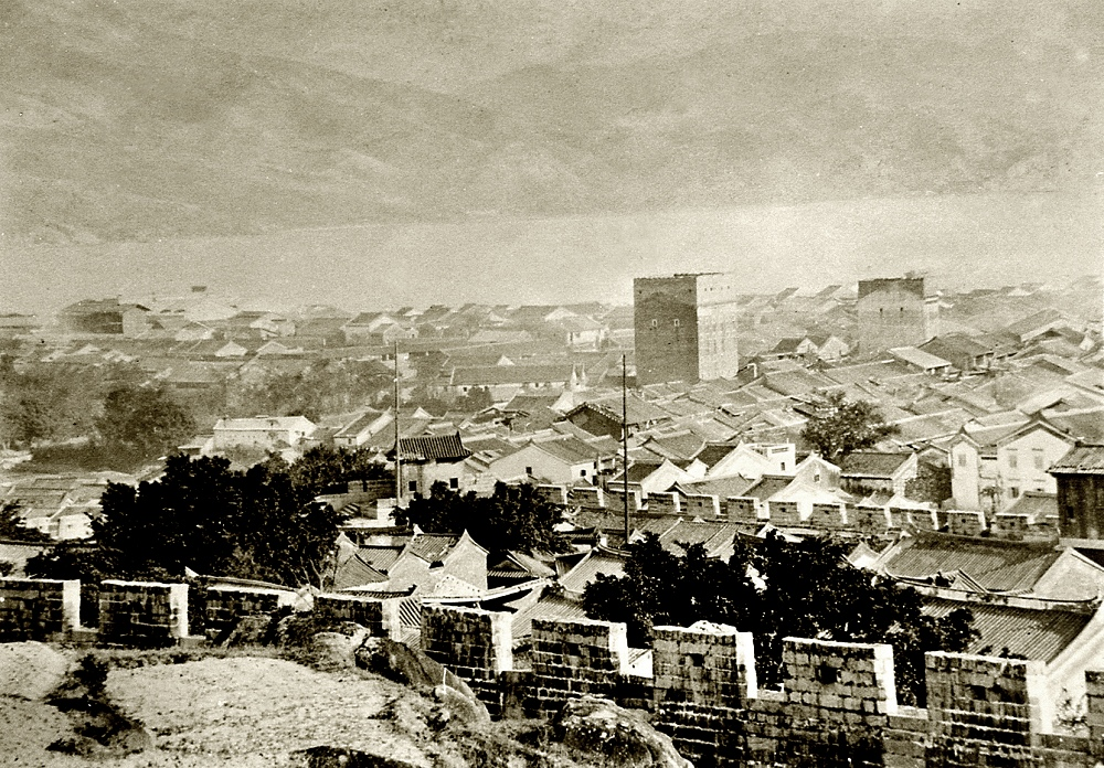 A view of the Kowloon Walled City and the popular Kowloon Street from Pak Hok San in Kowloon City in the 1910s. Kowloon Street acted as the biggest market in Kowloon Peninsula for centuries, and the two towers are pawn shops inside the market.